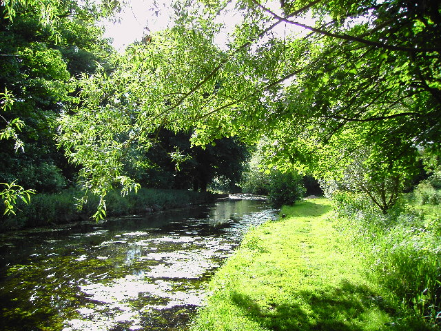 River Granta - Shelford recreation ground. By the time of the Domesday Book, the village of Great Shelford was established and already named Scelford, meaning "shallow ford", and referring to a crossing place over the River Granta. The Granta is one of the two tributaries to the river Cam which flows through Cambridge.